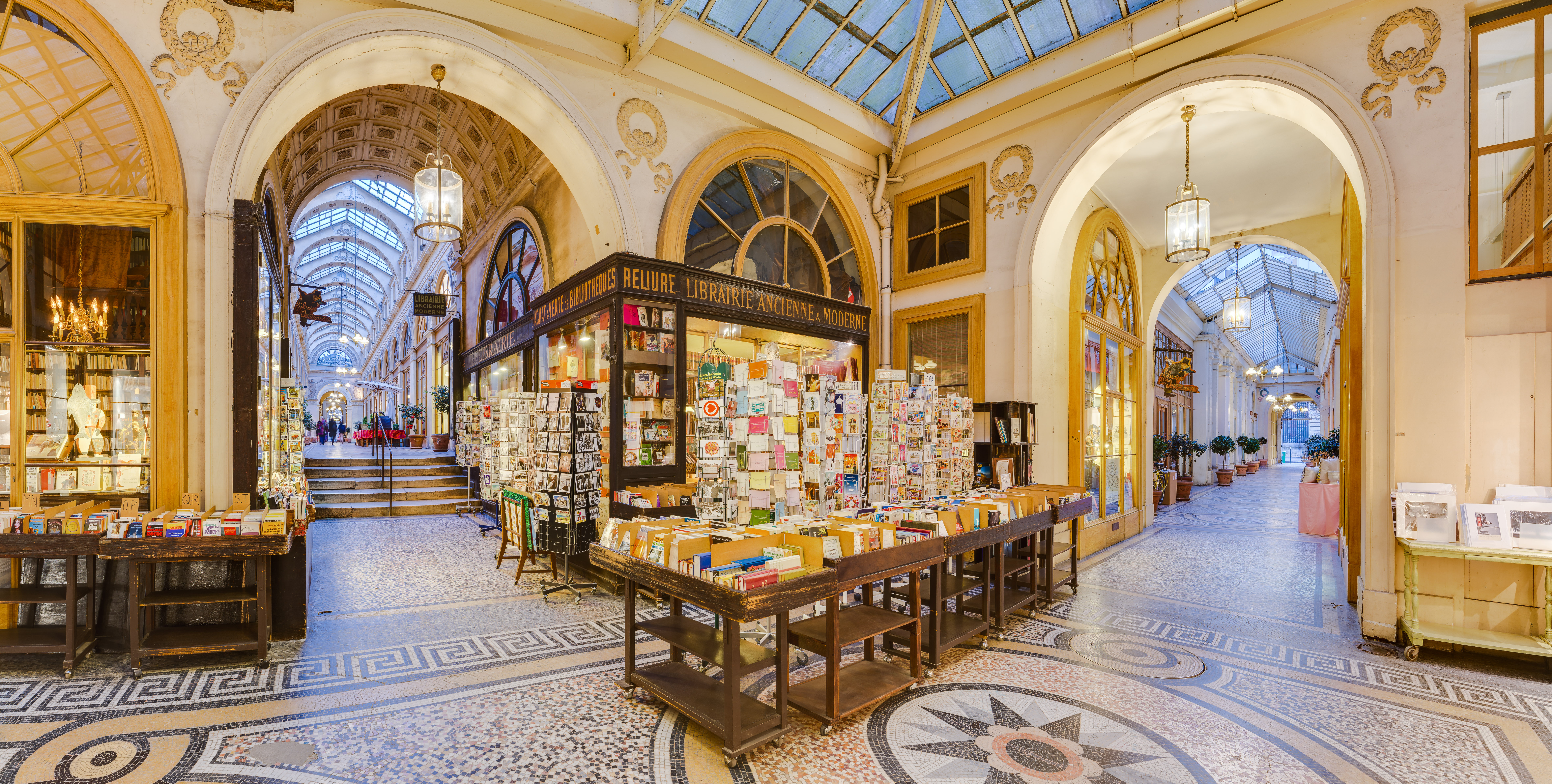 Vivienne covered passage, in Paris, 2nd arrondissement. Galerie Vivienne is home of several fashion and haute couture stores, including Jean-Paul Gaultier's.